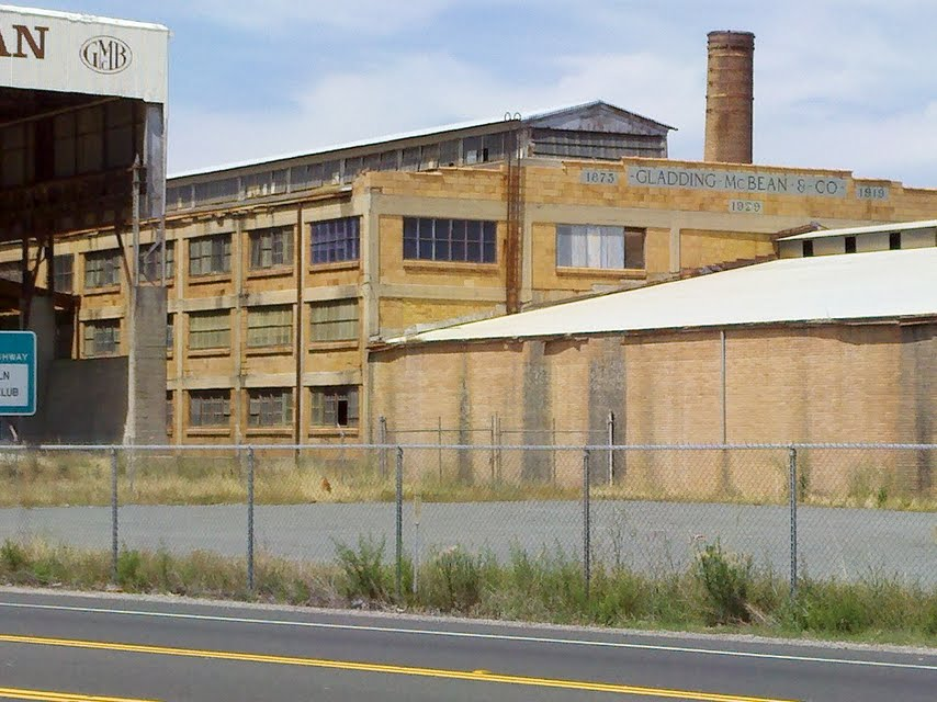 A photo of a factory building of ceramics manufacturer Gladding, McBean LLC, in Lincoln, Placer County, California.